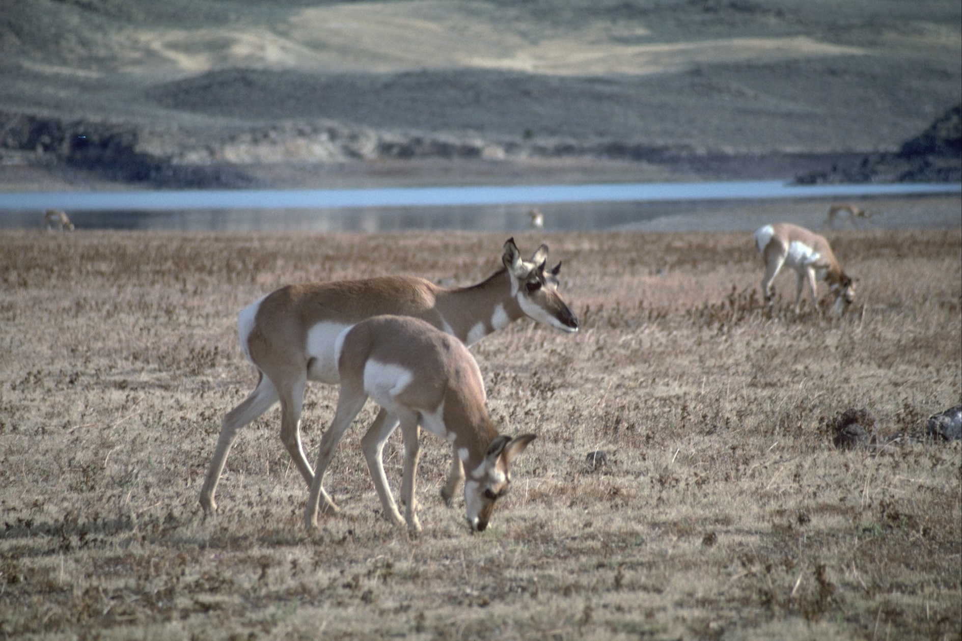 Pronghorn antelope near Warm Springs Reservoir, Oregon.